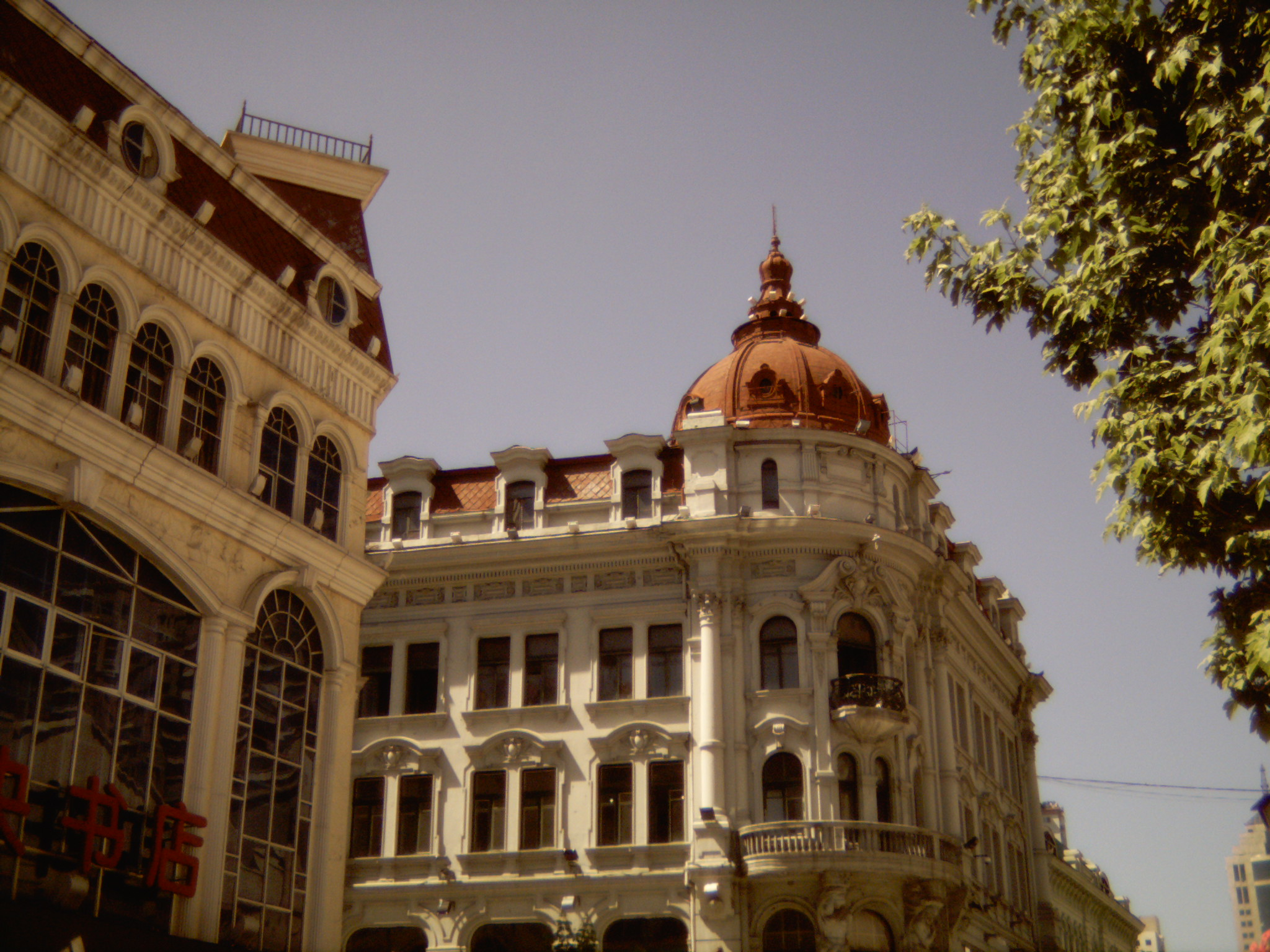 Central walk (1)